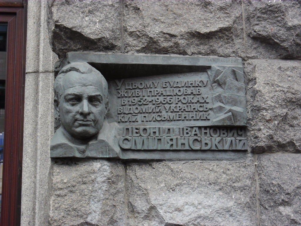 Kiev. August 2012